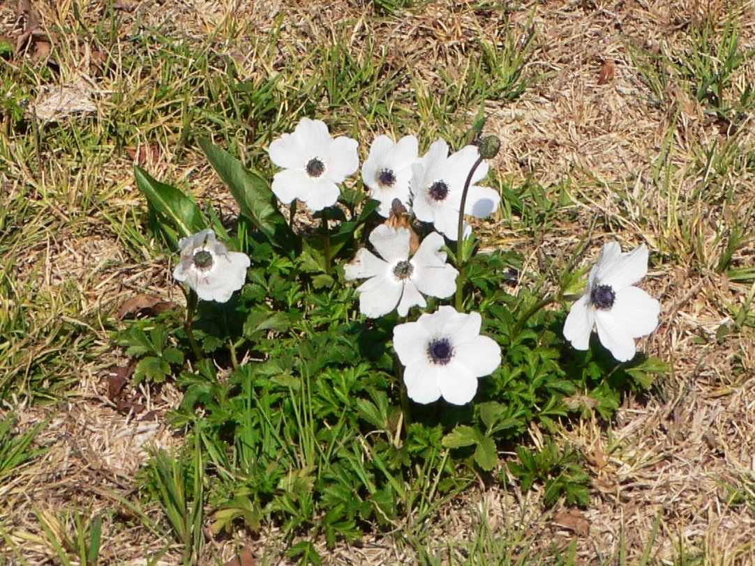 Anemone coronaria in Sde Nehemia, Israel.